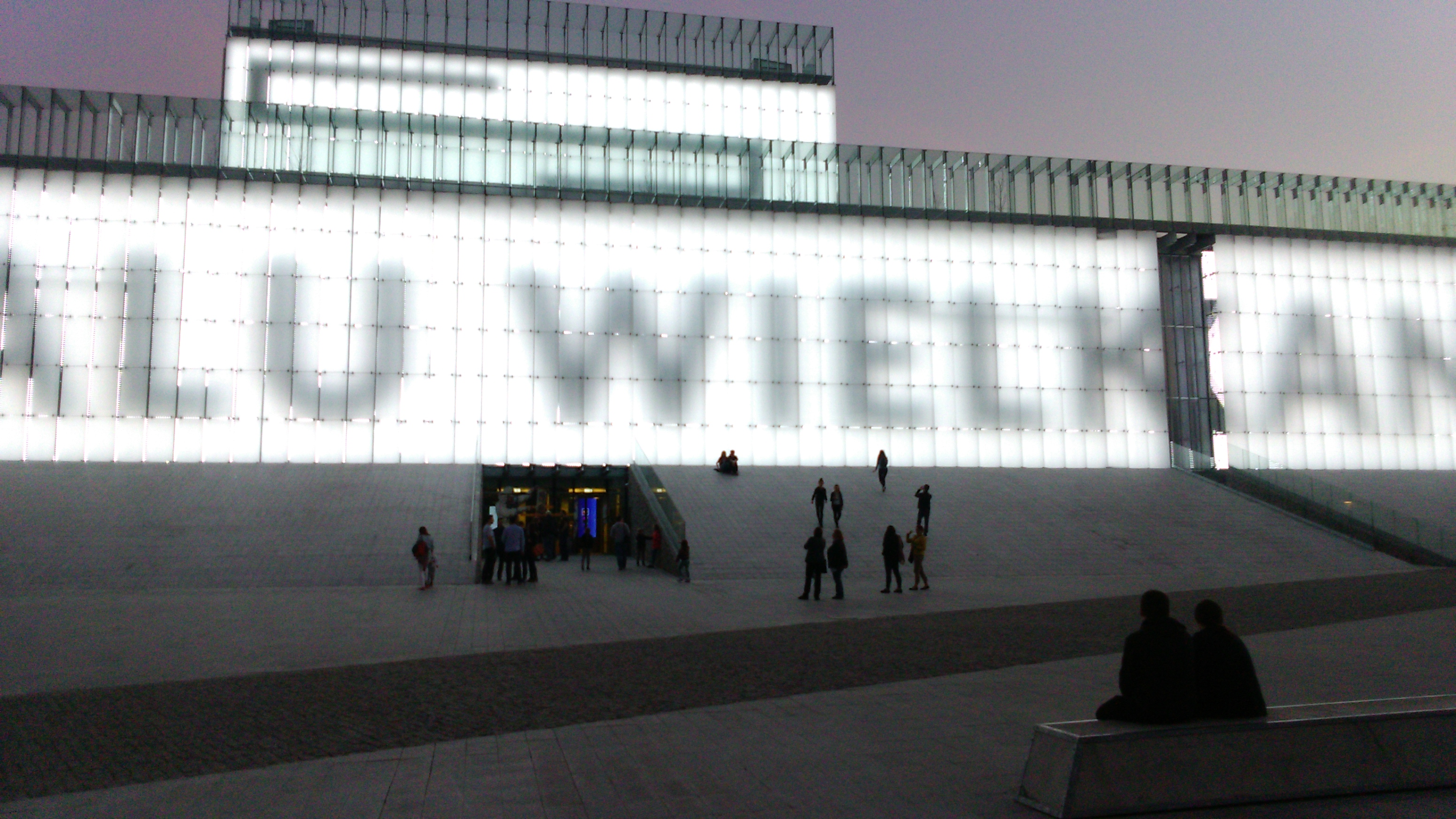 Lublin Kwiecień 2017